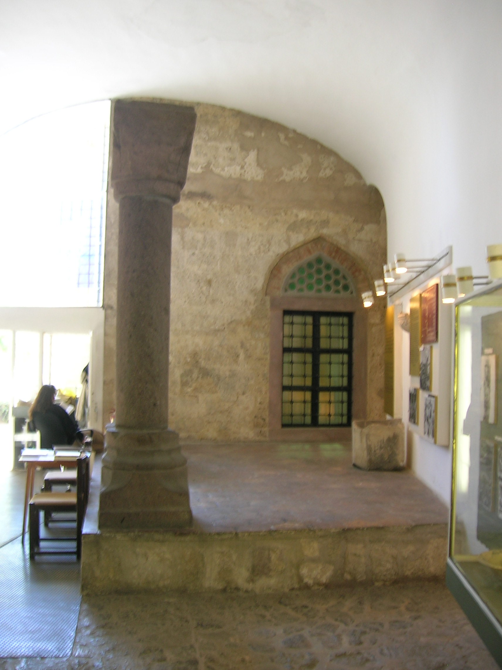 Museum next to the Yakovali Hassan mosque, Pécs, Hungary